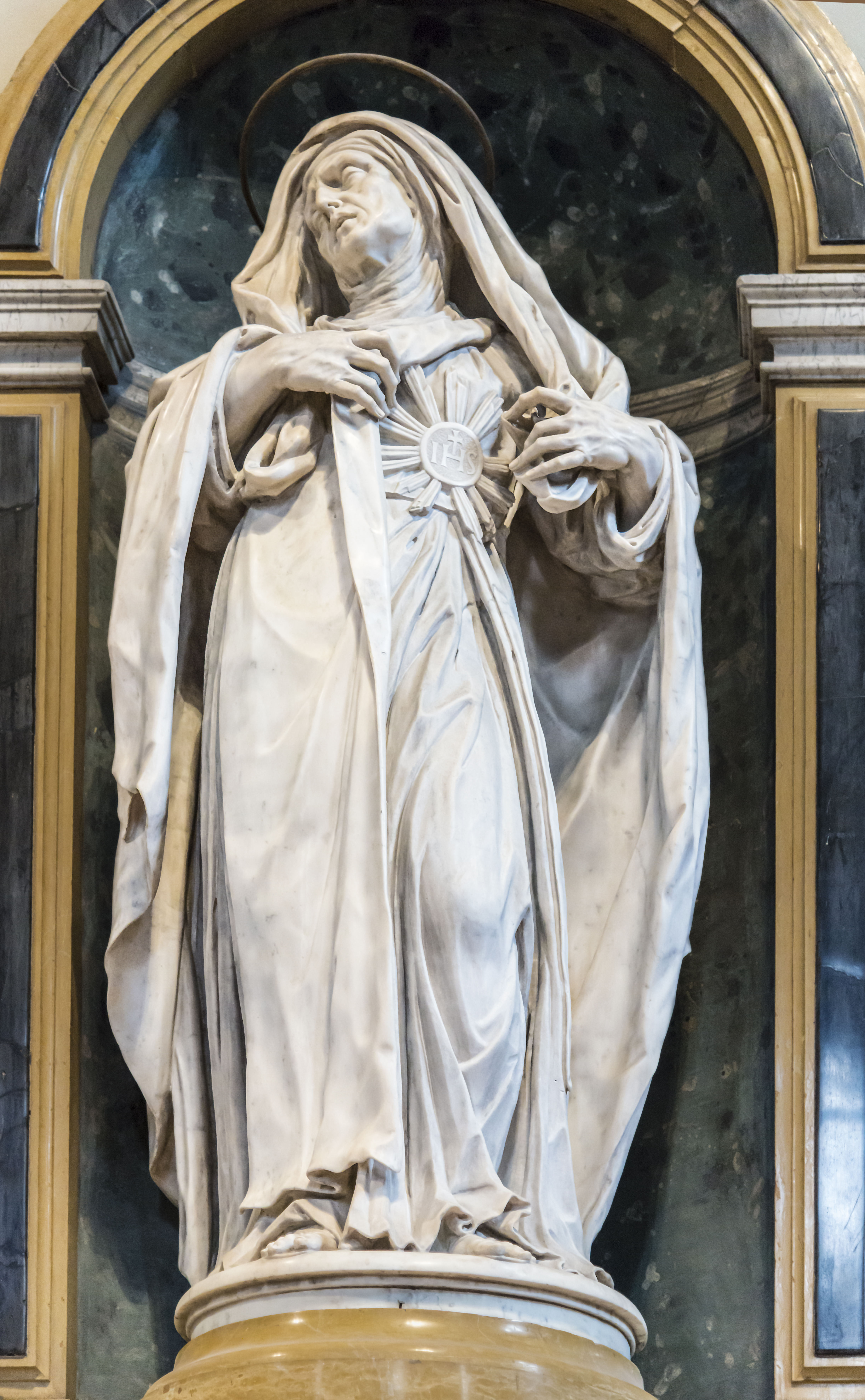 Church of Santa Maria dei Servi, Padua - altar dell'Addolorata - Juliana Falconieri by the sculptor Rinaldino di Francia.